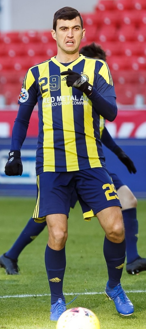 Vladimir Kozak with Pakhtakor Tashkent in a friendly game against FC Spartak Moscow.